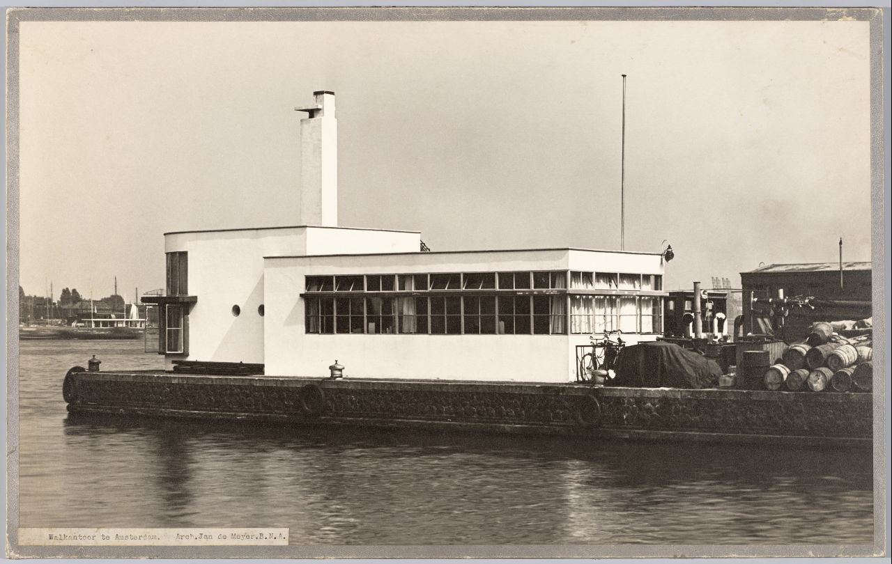 Rederijkantoor De Ruyterkade, Amsterdam, 1932. Architect: J.B.A. de Meyer. Fotograaf: onbekend. Collectie NAi / TENT_n344 URL van deze afbeelding: Meer foto's uit deze collectie kunt u bekijken in de Collectiedatabase van het NAi. Niet van alle gebouwen en interieurs zijn alle gegevens bekend. Heeft u meer informatie of weet u het adres van een gebouw? Laat dan een reactie achter (als u ingelogd bent bij Flickr) of stuur een mailtje naar: Al deze foto's zijn gemaakt in de eerste helft van de twintigste eeuw. Wij zijn benieuwd hoe deze gebouwen er vandaag de dag uitzien. Heeft u recente foto's van deze gebouwen of locaties, voeg ze dan toe als commentaar. U kunt een eigen Flickr-foto toevoegen door de URL ervan tussen vierkante haken in het commentaarveld te plakken. Als uw foto's een Creative Commons licentie hebben, nemen we ze bovendien graag op in de NAi Collectiedatabase. De Ruyterkade Shipping Company, Amsterdam, 1932. Architect: J.B.A. de Meyer. Photographer: unknown. NAI Collection / TENT_n344 Persistent URL: For more photographs from this collection, please visit the NAI Collection Database You can help us gain more knowledge on the content of our collection by adding a comment with information. If you do not wish to log in, you can write an e-mail to: All these pictures are taken in the first half of the twentieth century. We are curious to learn how these buildings look like today. If you have recently taken photographs of these buildings or locations, please add them to your comment. If you'd like to include a Flickr photo, simply copy and paste its URL between square brackets in the commentary-field. Photos with a Creative Commons licence may be used to illustrate the NAi Collection Database.